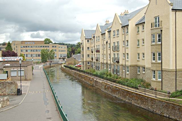 Eden, Cupar. Looking down the Eden from South Bridge with the council buildings at the far end and Eden House at this end and some light industrial units on the left bank. All this area used to be industrial but land prices have made it more attractive to new commercial developments and the industries have moved to purpose built industrial estates on the edge of town.